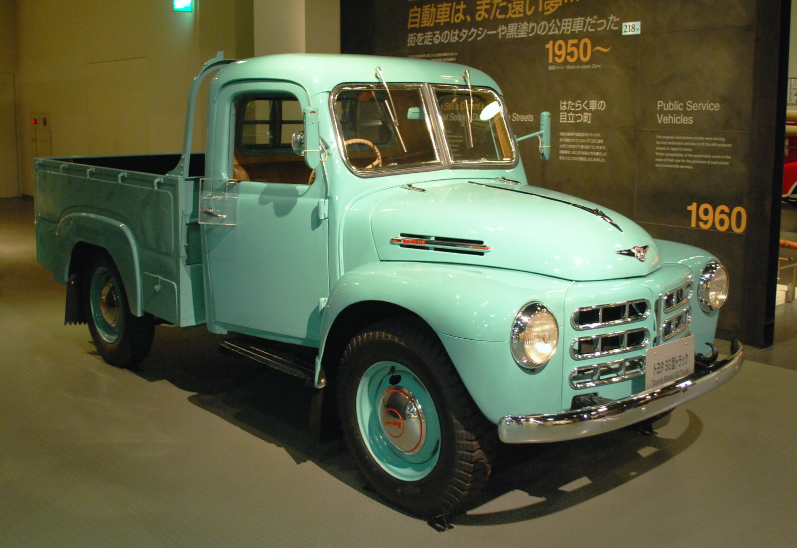 Toyota_Model_SG_Truck